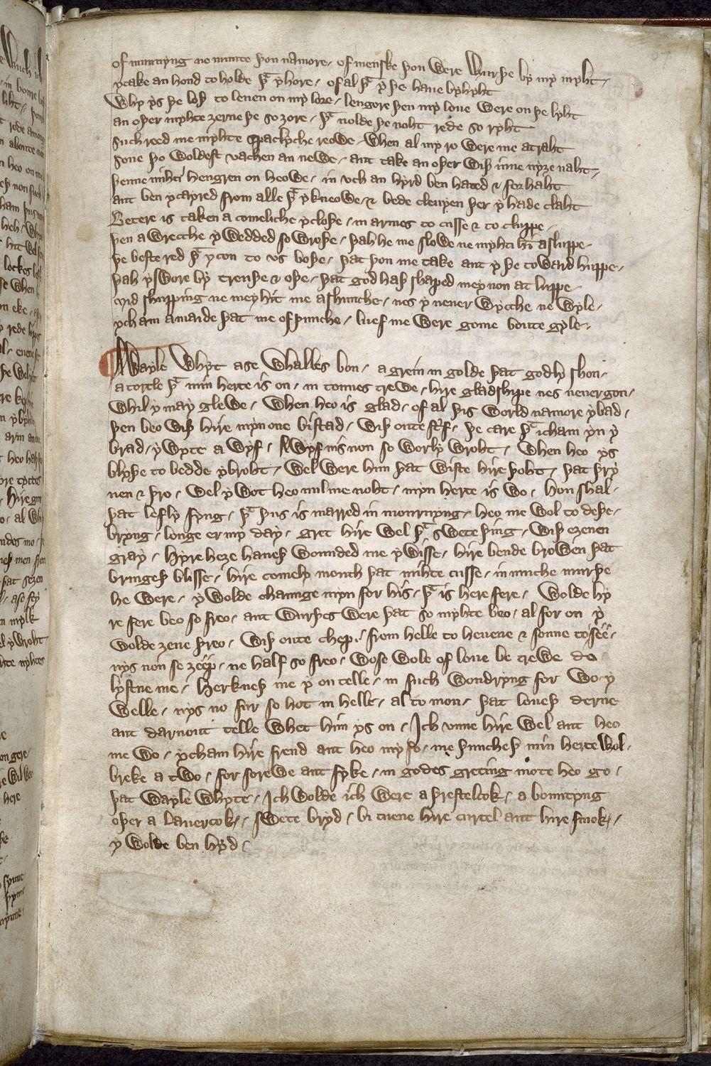 Text contains the second part of Mosti ryden by Rybbesdale, and the start of A wayle whyt as whalles bon. From BL Harley MS 2253, f. 67; digitised and held by the British Library.